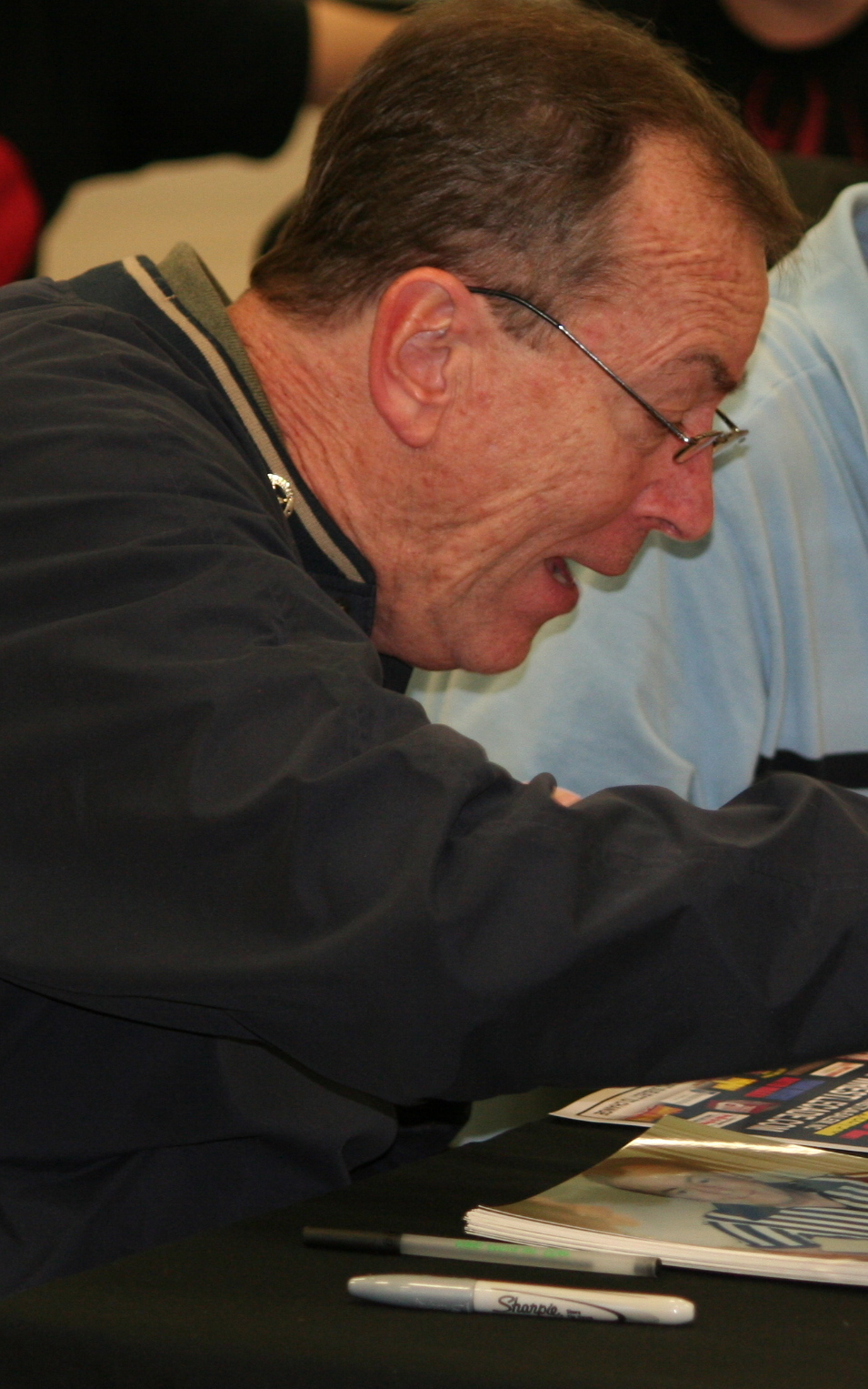 Professional wrestling referee Tommy Young at Wrestlecade in Winston-Salem, North Carolina in November 2011. Cropped from original.